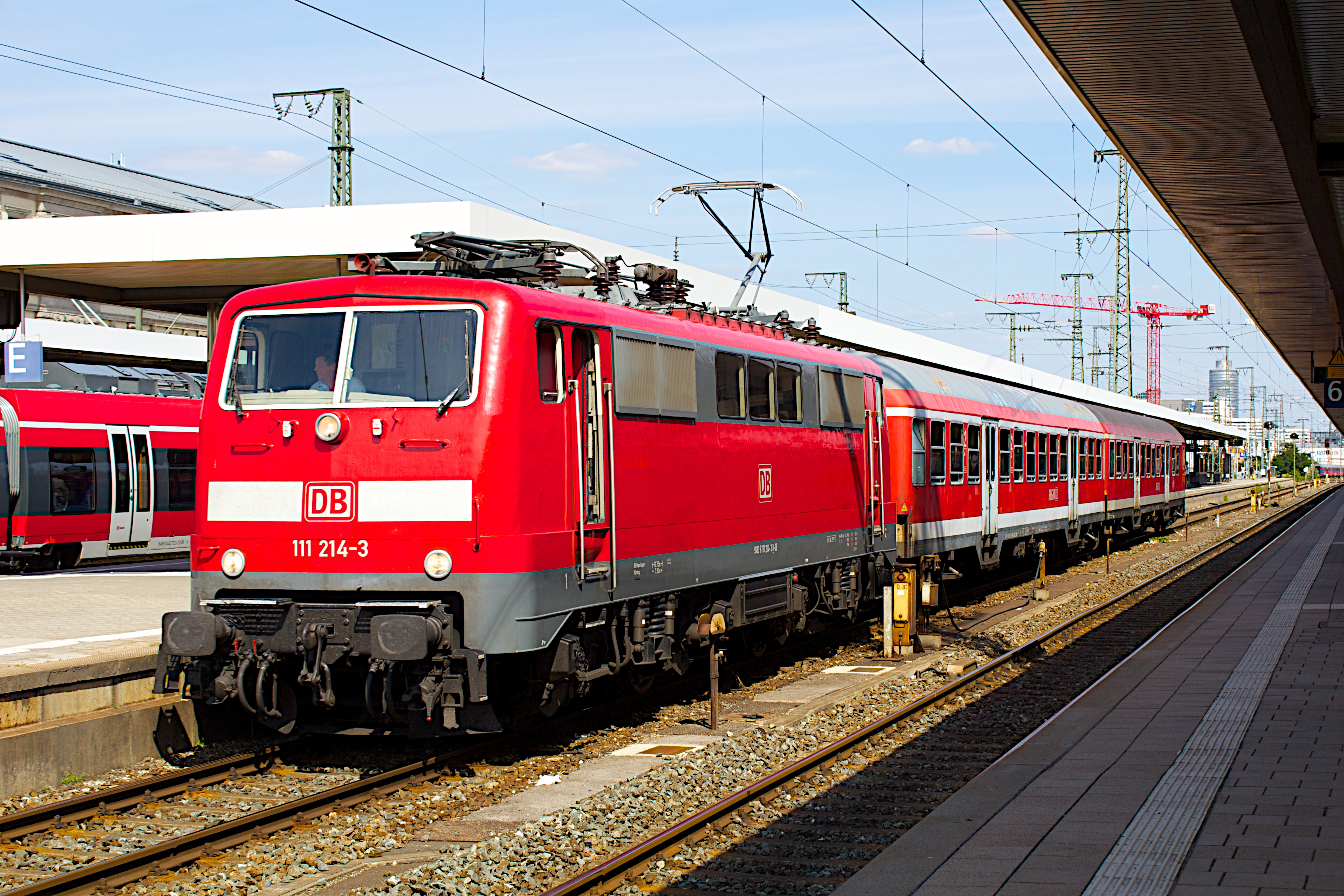 Locomotive 111 214-3 with a Regionalbahn train at Nürnberg Hauptbahnhof.